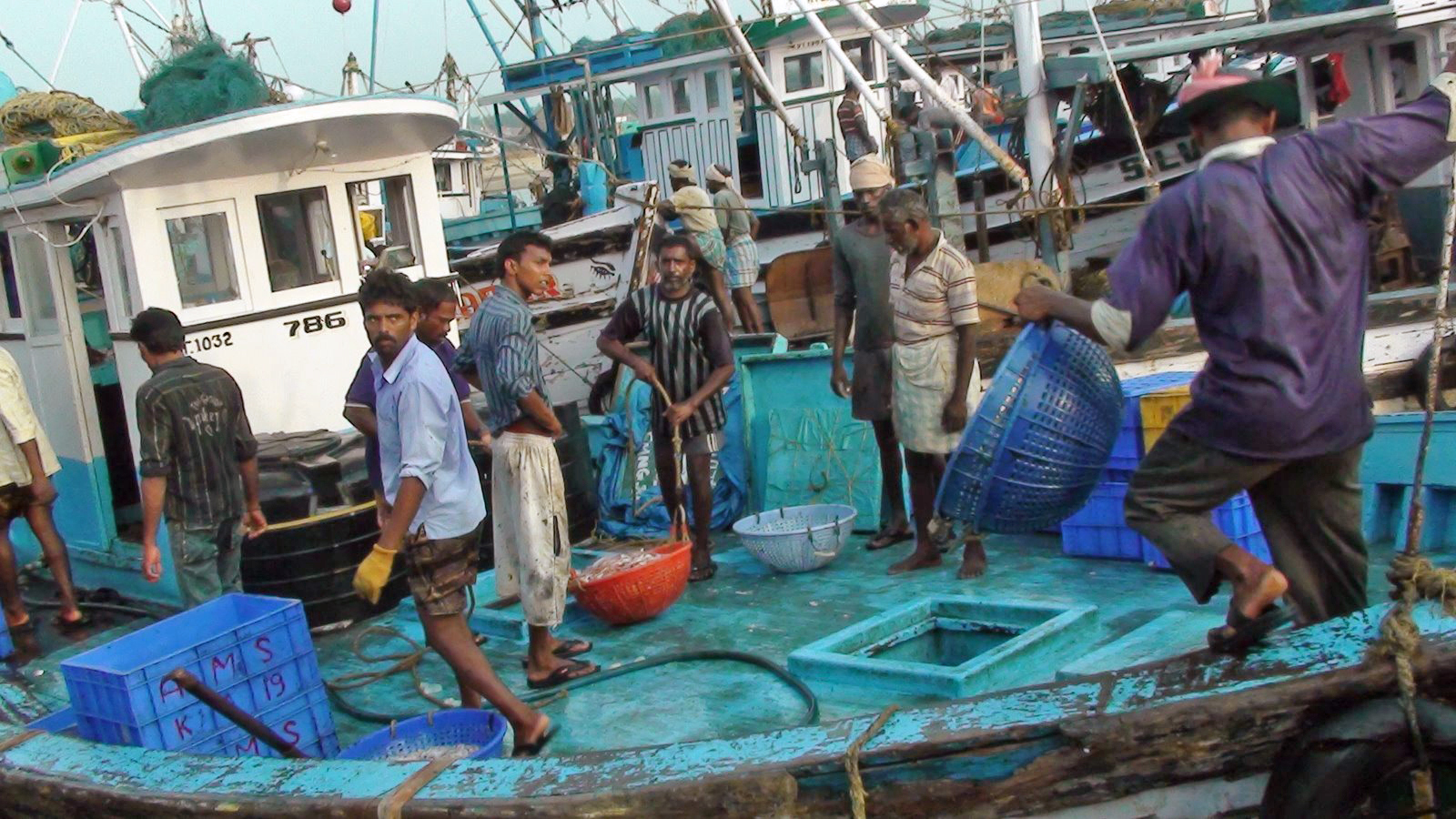 The fishing docks in Mangalore. Featured in this image is a Muslim boat owner with Hindu sailors.